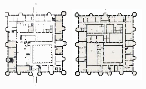 Floor plan for Hurstmonceux castle